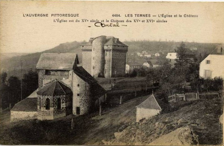 Château des Ternes près de Saint-Flour, avant travaux. date estimée.